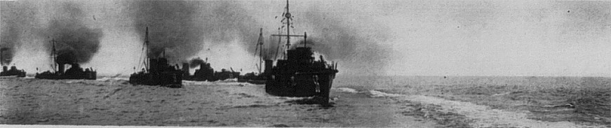 German destroyers during the First World War. The first destroyer (called torpedo boat by the German Imperial Navy) may be S 58.